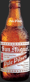 San Miguel is flagship brand.